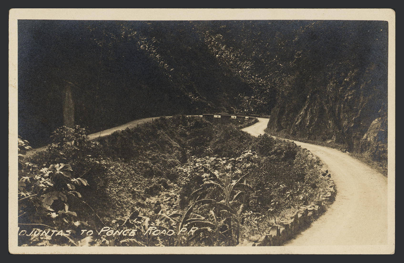 Old road connecting the town of Adjuntas to the city of Ponce in Puerto Rico. Scanned imaged from a postal card: 1 tarjeta postal : byn; 8.7x14 cm., de la Colección de Tarjetas Postales, disponible en la Colección Puertorriqueña del Ssitema de Bibliotecas de la Universidad de Puerto Rico, Recinto de Río Piedras. Year: 1920, intelligent guess